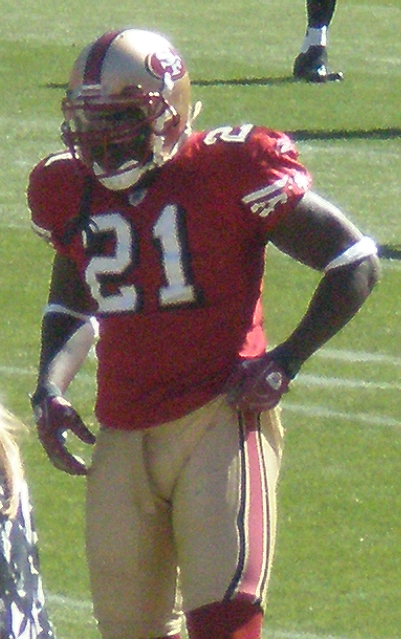 San Francisco 49ers running back Frank Gore warming up on Bill Walsh Field at Candlestick Park prior to a regular season game against the Philadelphia Eagles. The Eagles won 40-26.